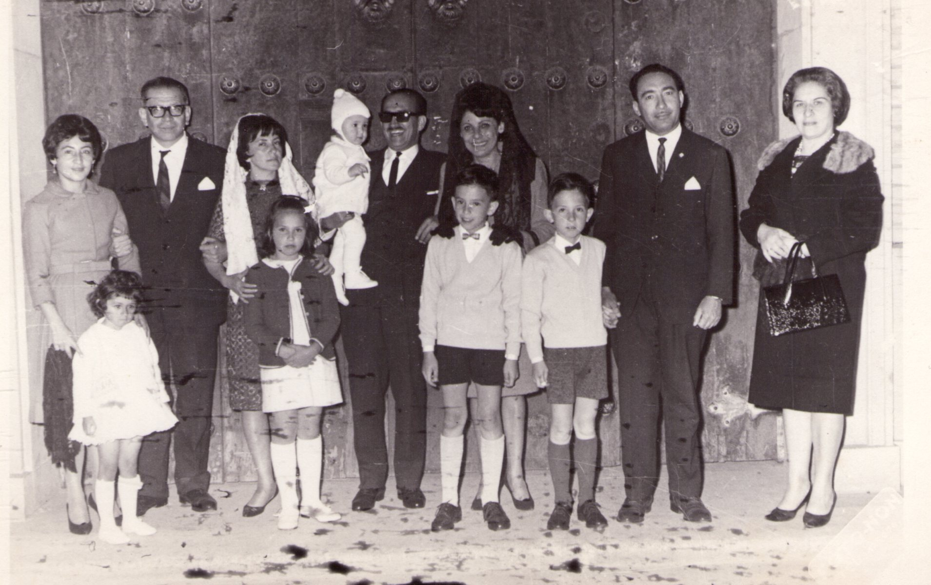 In this picture from left to right appear the following people: the second person from the left side, Dr. Luis Benicio Jiménez, who held a very high responsibility post in the Department of Labor (Colombia), he was Edgar J. Meek’s godfather. The 3rd person from the left is Dr. Leon J. Meek’s wife, Leonor M. de Meek, in front of her their daughter, Elizabeth Meek. Next to her, Dr. Leon J. Meek, who was carrying Edgar J. Meek, their little son, in his arms. The following is another of their sons, J. German Meek and behind him, Ms. Regina Uribe, pianist, his godmother. Next to them, their other son, Frank Meek, who was taking his godfather by the hand, Dr. Amaury Guerrero, who was Secretary General of the Honorable Senate of the Republic of Colombia for many years.